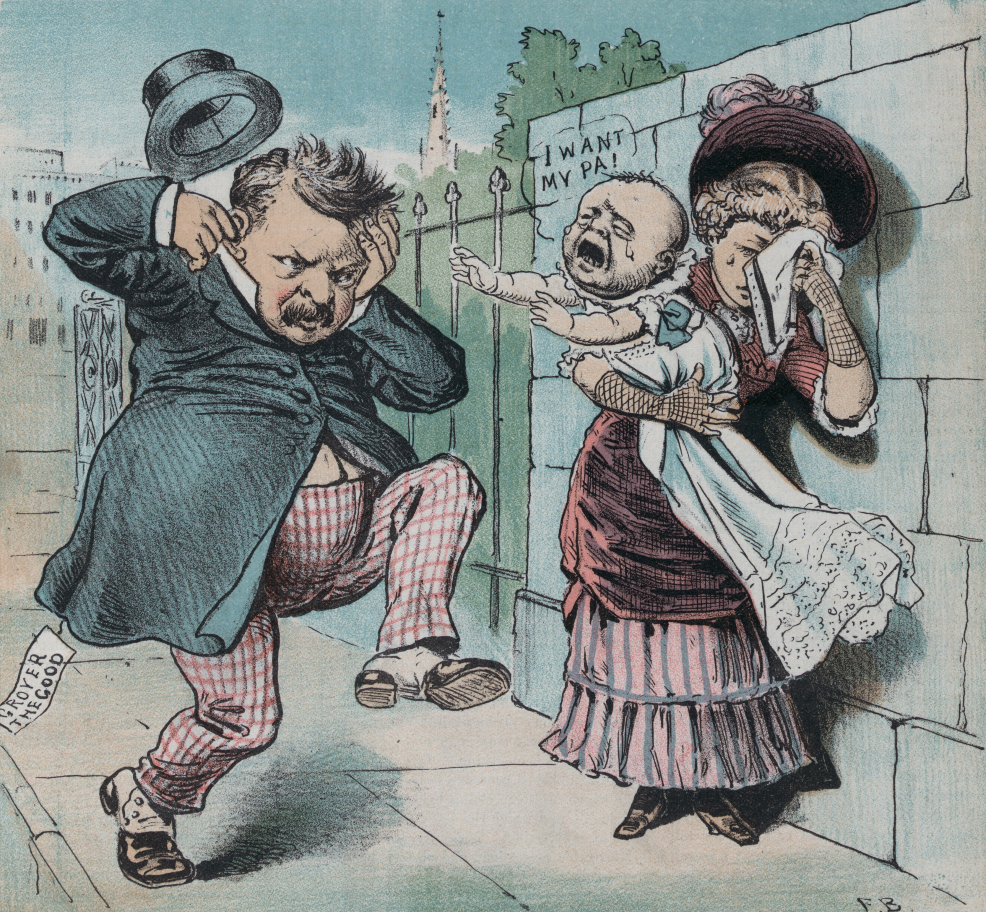 Anti-Grover Cleveland political cartoon of 1884 (cropped from the front page of "The Judge" magazine), captioned "Another voice for Cleveland". Reference is to the story that Cleveland had had an illegitimate child (giving rise to the infamous campaign chant "Ma, Ma, where's my Pa?" by Cleveland opponents, to which Cleveland supporters replied "Gone to the White House, Ha! Ha! Ha!").